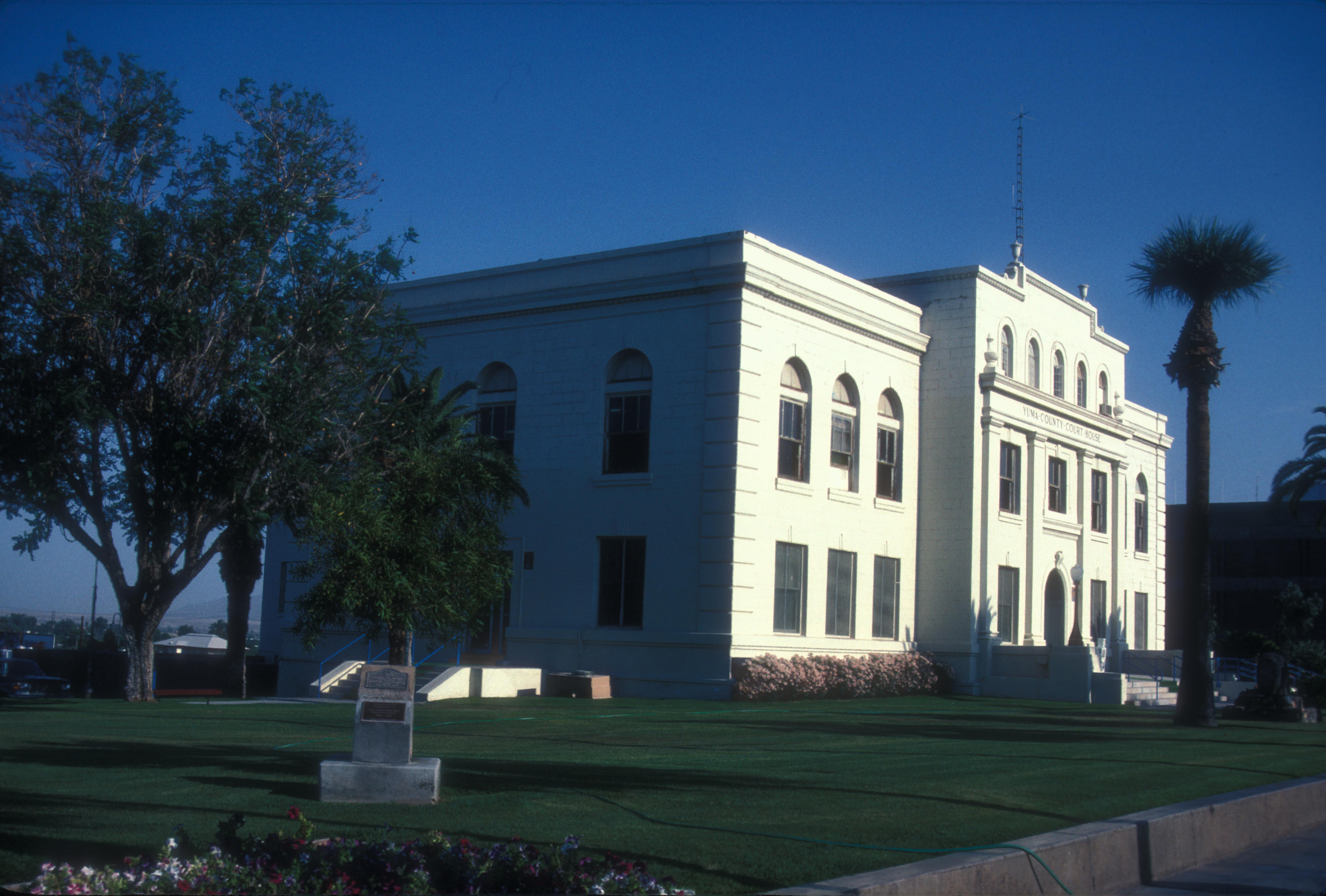 Yuma County Courthouse, in Yuma, Arizona. Built in 1928; in the LATE 19TH CENTURY AND 20TH CENTURY REVIVAL styles. On the National Register of Historic Places.